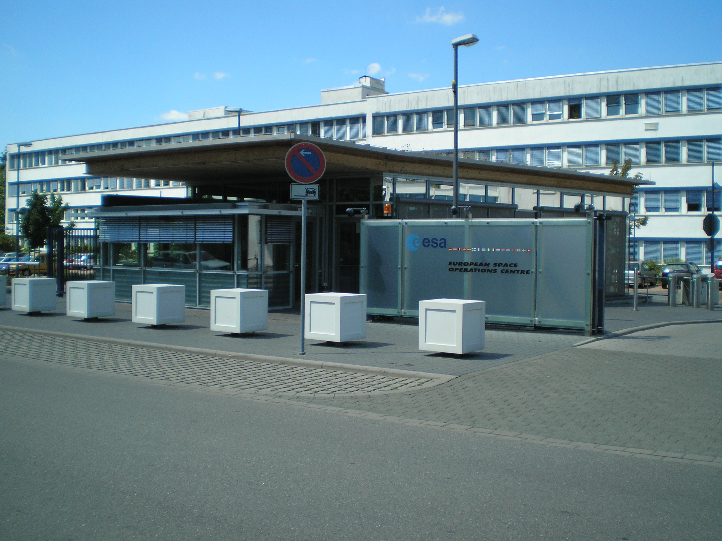 European Space Operations Centre (ESOC) in Darmstadt, Germany.